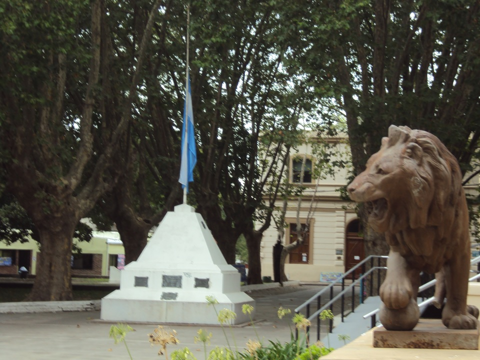 Ingreso